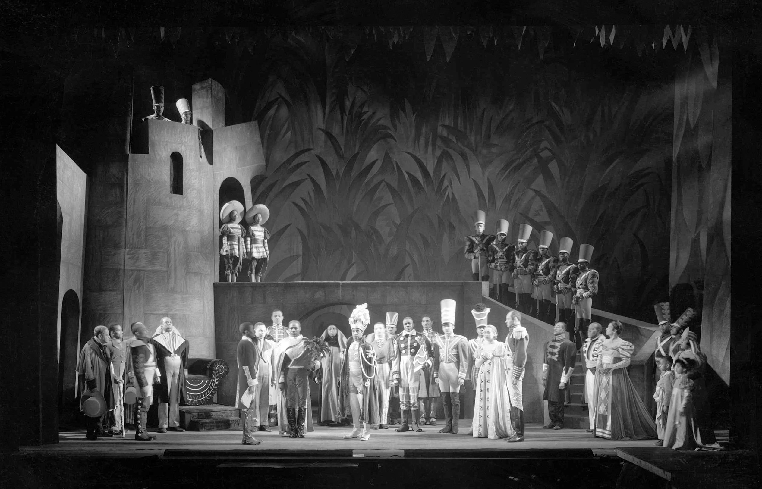 Photograph of the arrival of King Duncan and his court at Macbeth's palace in Act I, Scene 2, of the Federal Theatre Project production of Macbeth at the Lafayette Theatre